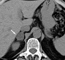 Computed tomography of an adrenal adenoma. Original caption: "75-year-old male without history of malignancy with incidentally discovered adrenal adenoma. (a) Transverse nonenhanced computed tomography (CT) scan shows well-defined mass (arrow) with low attenuation to the liver parenchyma."